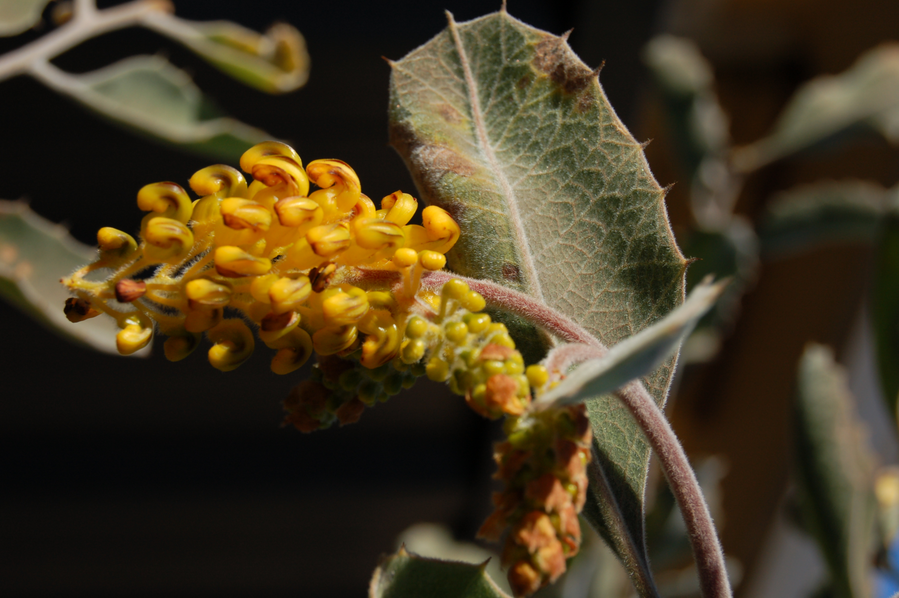 Flower of Grevillea miniata taken by me, Robert Charles Pawley with a NIkon D50 SLR on Sunday 9th July at Peter Olde's place (Illawong, Sydney). The picture is unchanged in jpg format.